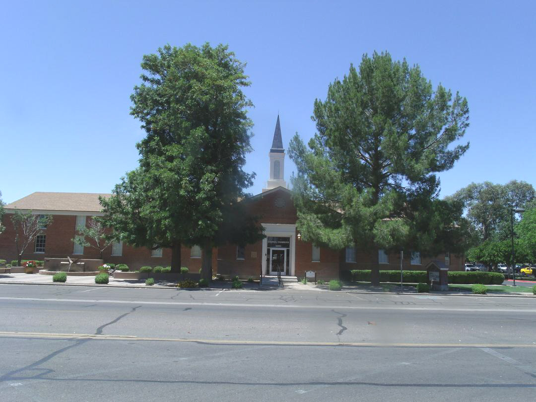 Queen Creek Town Hall. The building that currently serves as the Town Hall for Queen Creek began as a meetinghouse for The Church of Jesus Christ of Latter-day Saints. Listed as historical by the San Tan Historical Society.